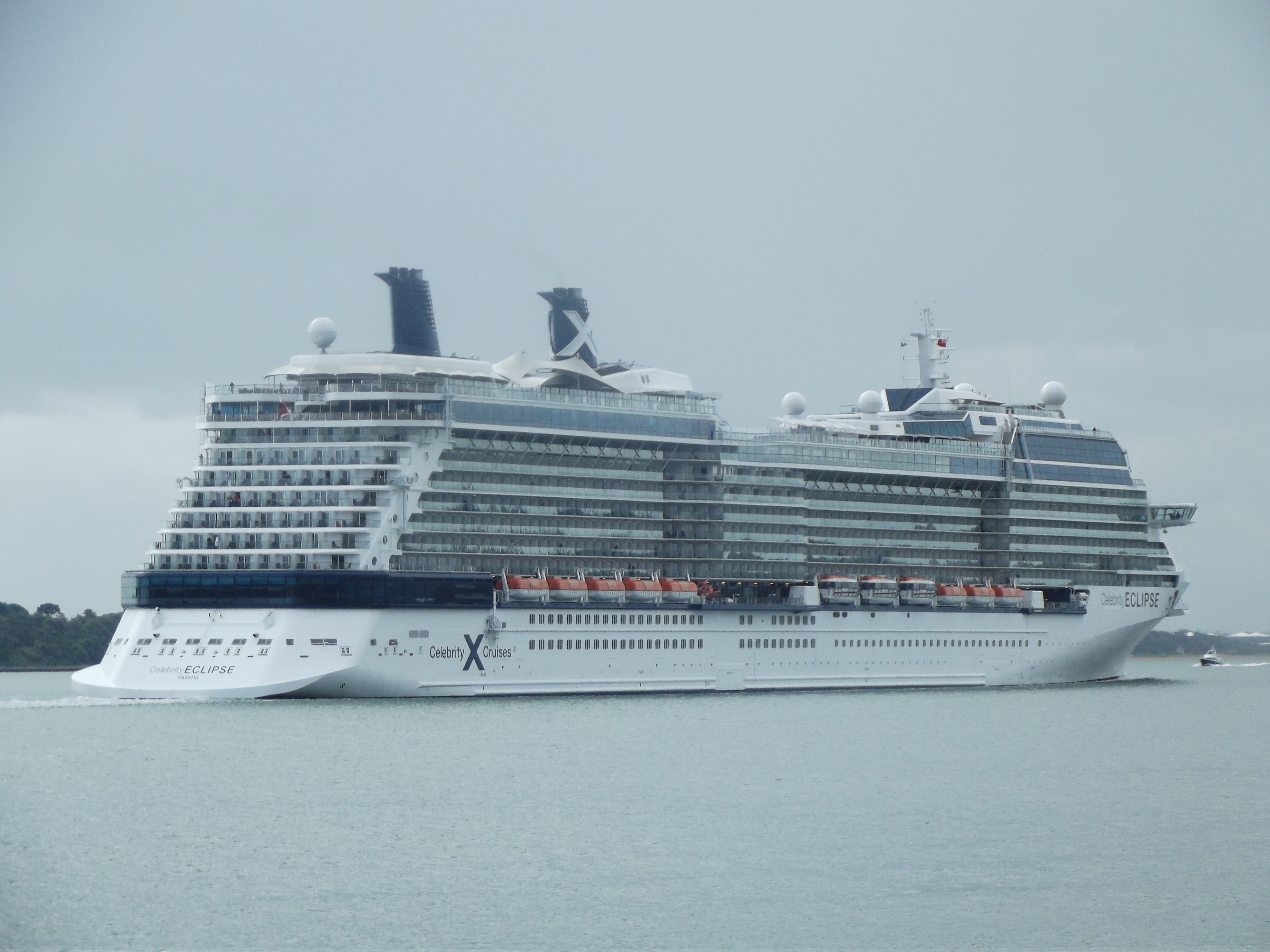 Celebrity Eclipse departing Southampton (rear view).